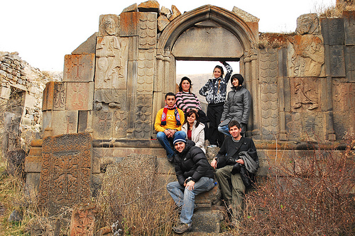 St. Stepanos church in Khosrov Reserve Excursion, Winter 2010.